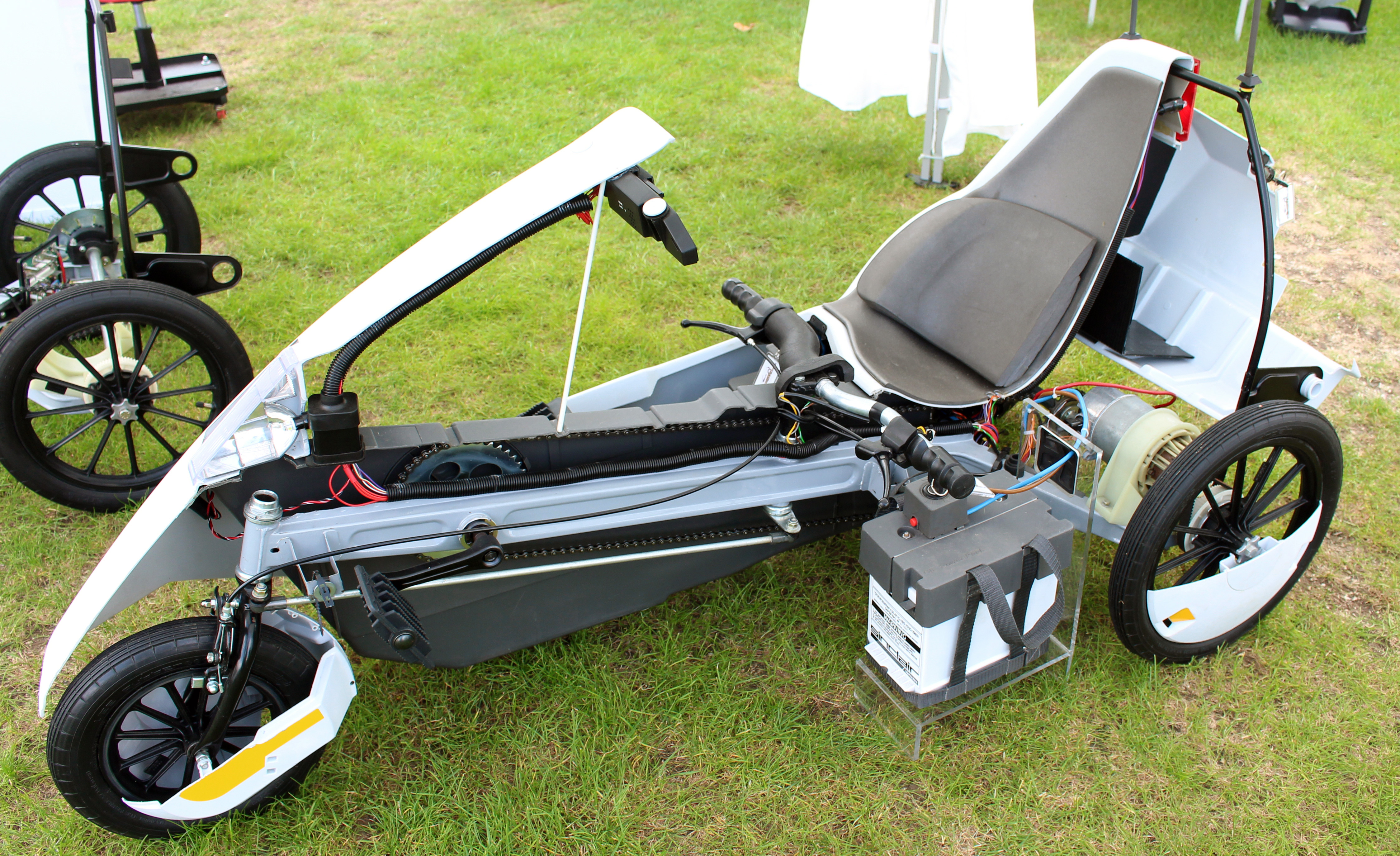 Sectioned Sinclair C5 showing the chassis, chain drive and internal electrics